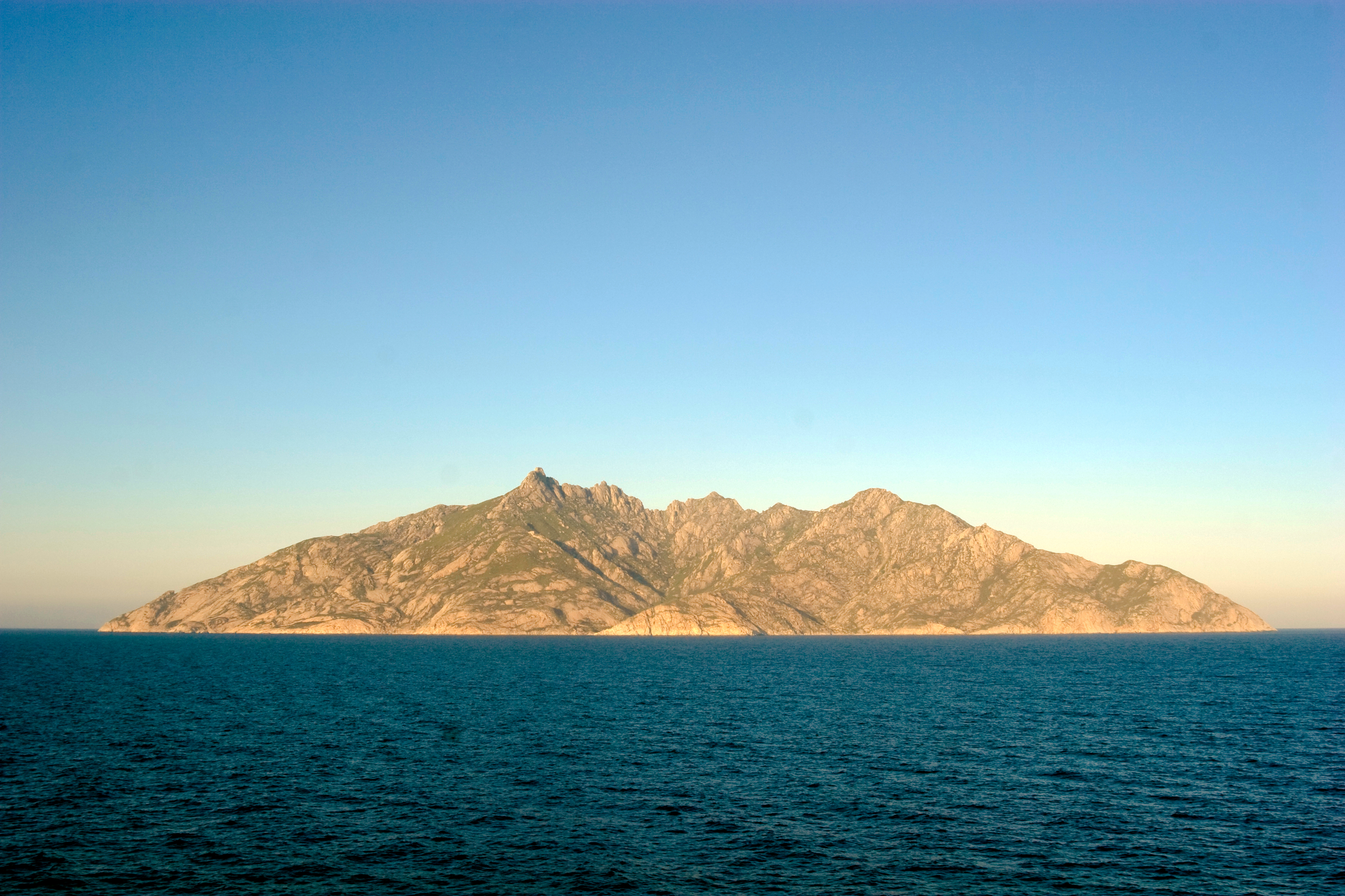 Montecristo isle as it's seen from its north side.